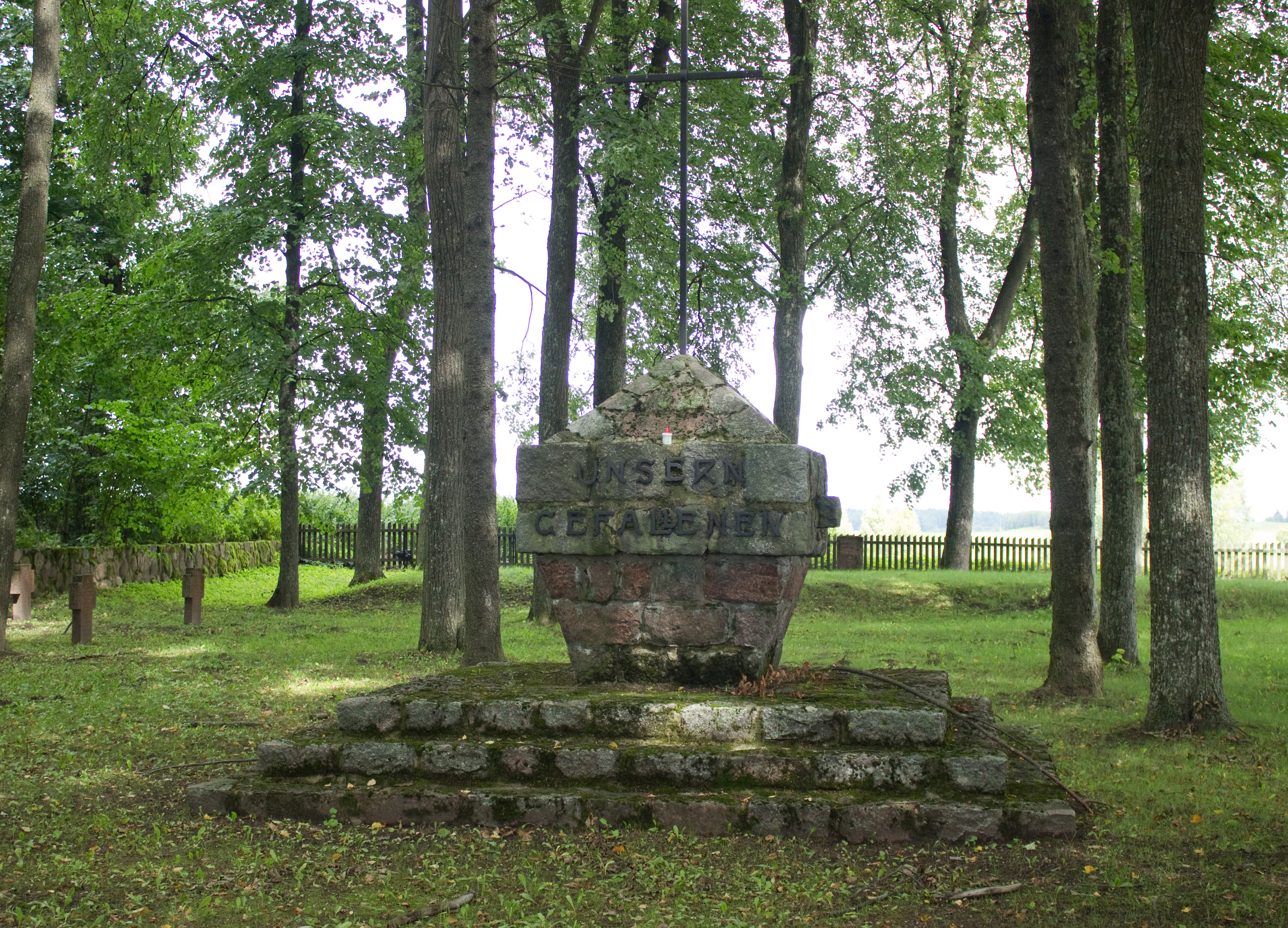 Cemetery, Markowskie, gmina Wieliczki, powiat ełcki, Warmian-Masurian Voivodeship